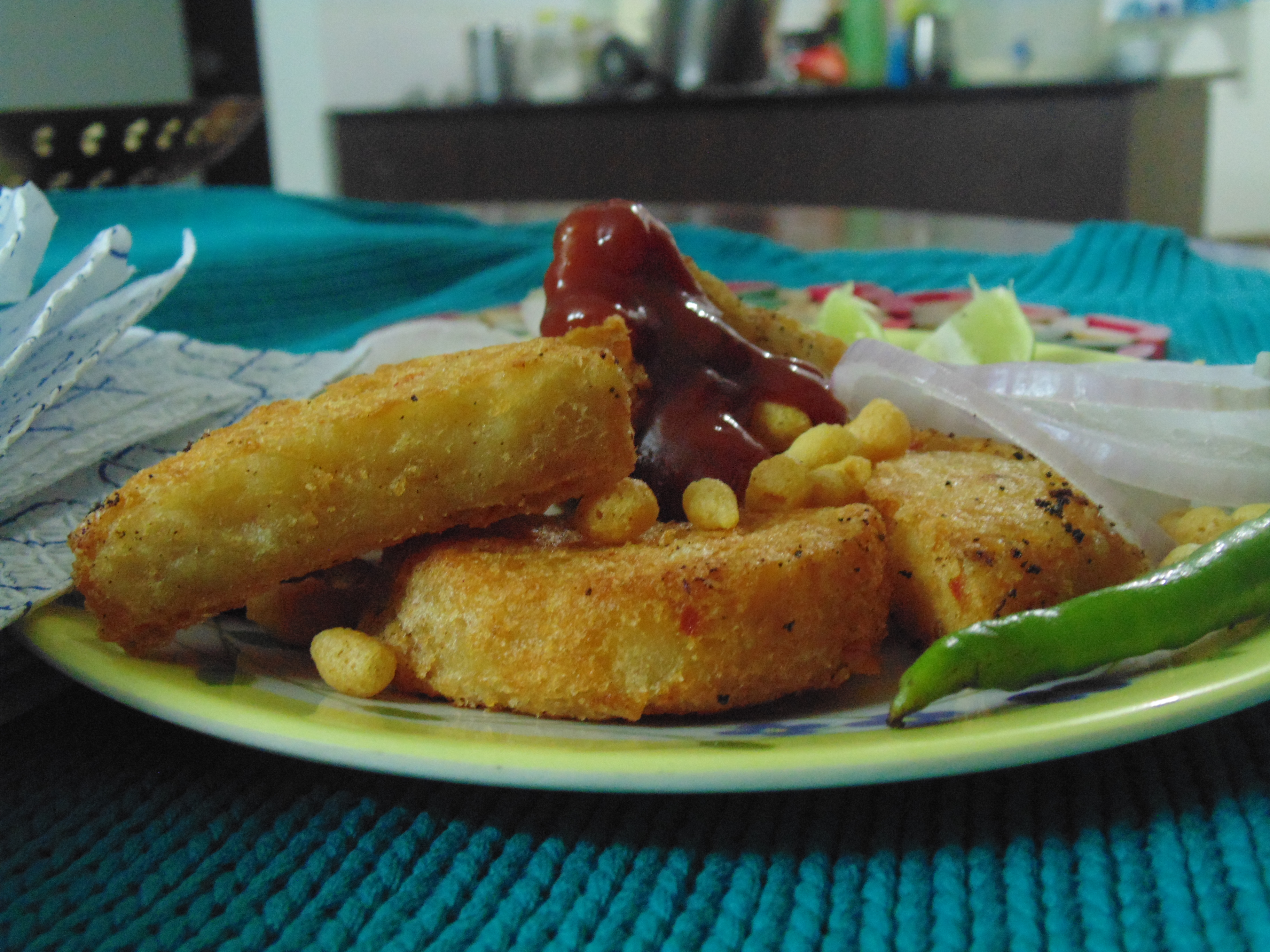 A mandatory item found in every Delhi gali's every Chaat shop menu.